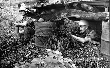 Swedish machine gun-armed UN soldiers at one of the access roads to Niemba in November 1961.